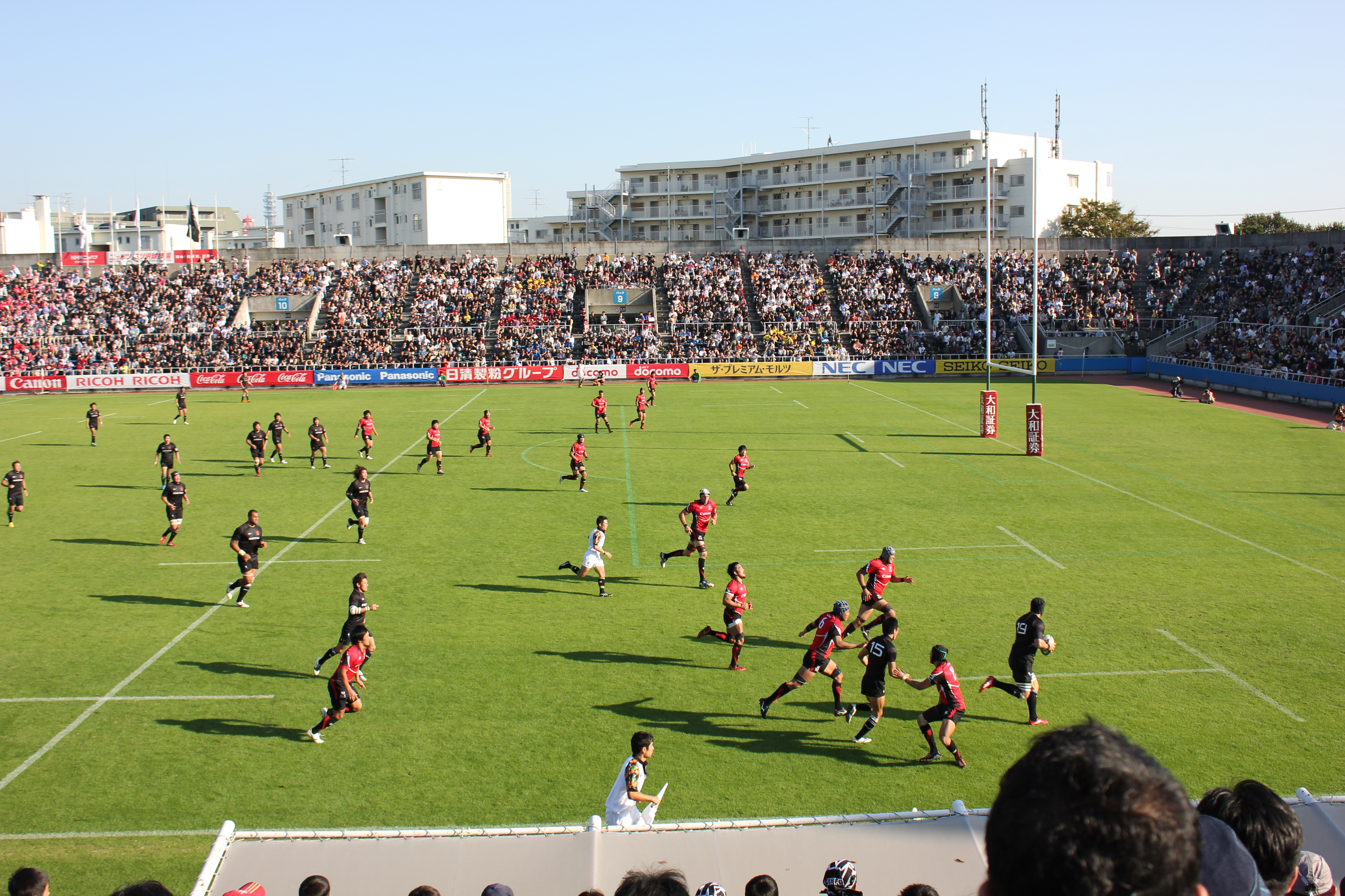 Mitsuzawa Football Stadium